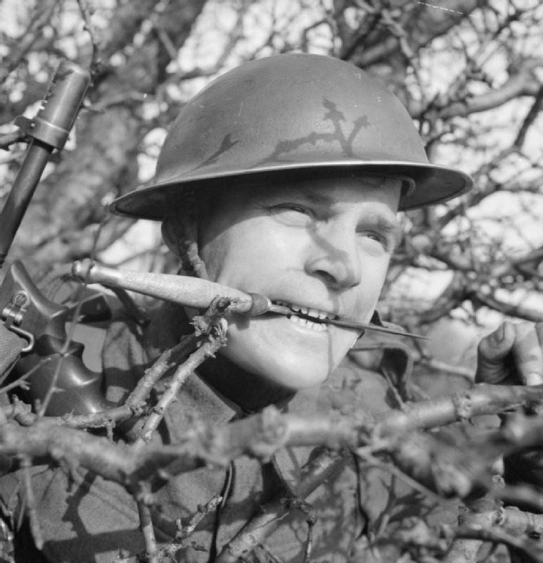 The British Army in the United Kingdom 1939-45 A commando carrying his knife in his mouth, during training in Scotland, 28 February 1942.